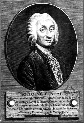 Portrait of Antoine Portal (1742-1832))